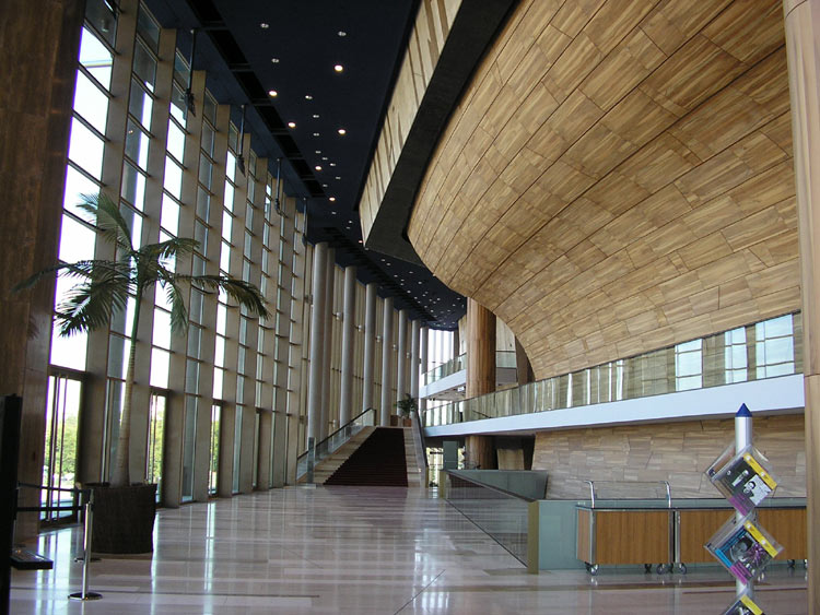 The Palace of Arts, Budapest